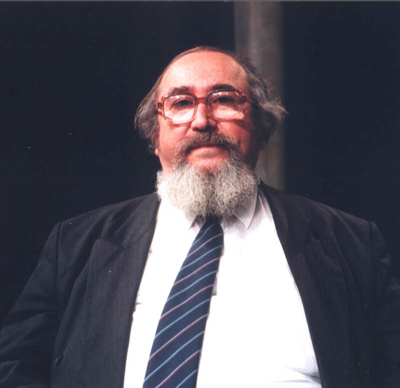 Mladen Dražetin (Cyrillic: Младен Дражетин, 3 March 1951, Novi Sad – 23 July 2015, Novi Sad) was a doctor of social sciences, Serbian intellectual, economist, theatrical creator, poet, writer and philosopher.